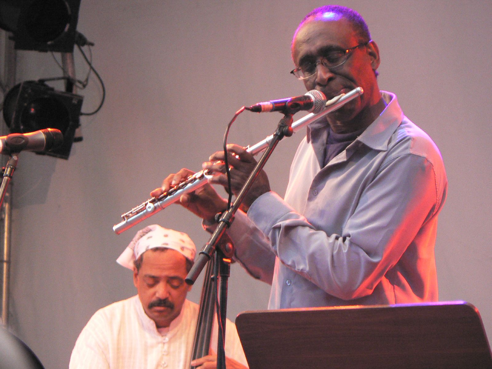 Jaribu Shahid (double bass) and Ronald Snijders (flute)